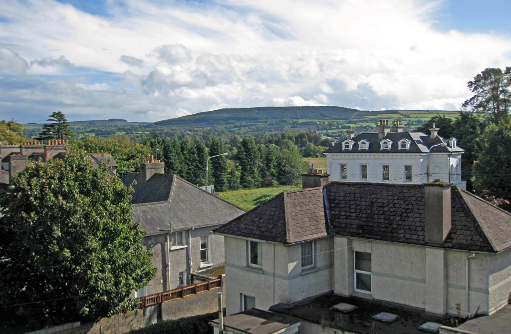 Mallow Town looking southwest from near the railway station